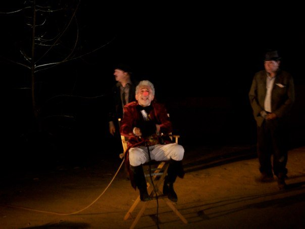 Bollywood actor Naseeruddin Shah performing 'Waiting for Godot' at The Doon School, 2009